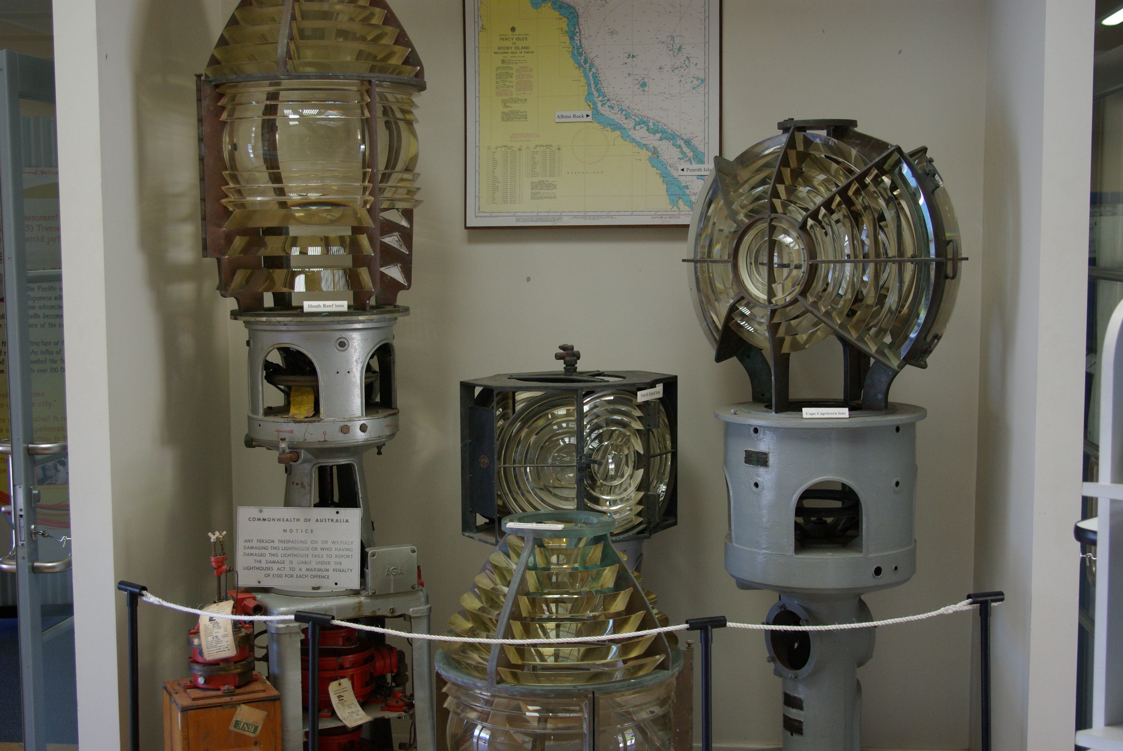 Lenses removed from the lighthouses that used to mark the Great Barrier Reef, now at Townsville Maritime Museum. From the top left, Heath Reef, Penrith Island, Cape Capricorn. On the bottom Wharton Reef.